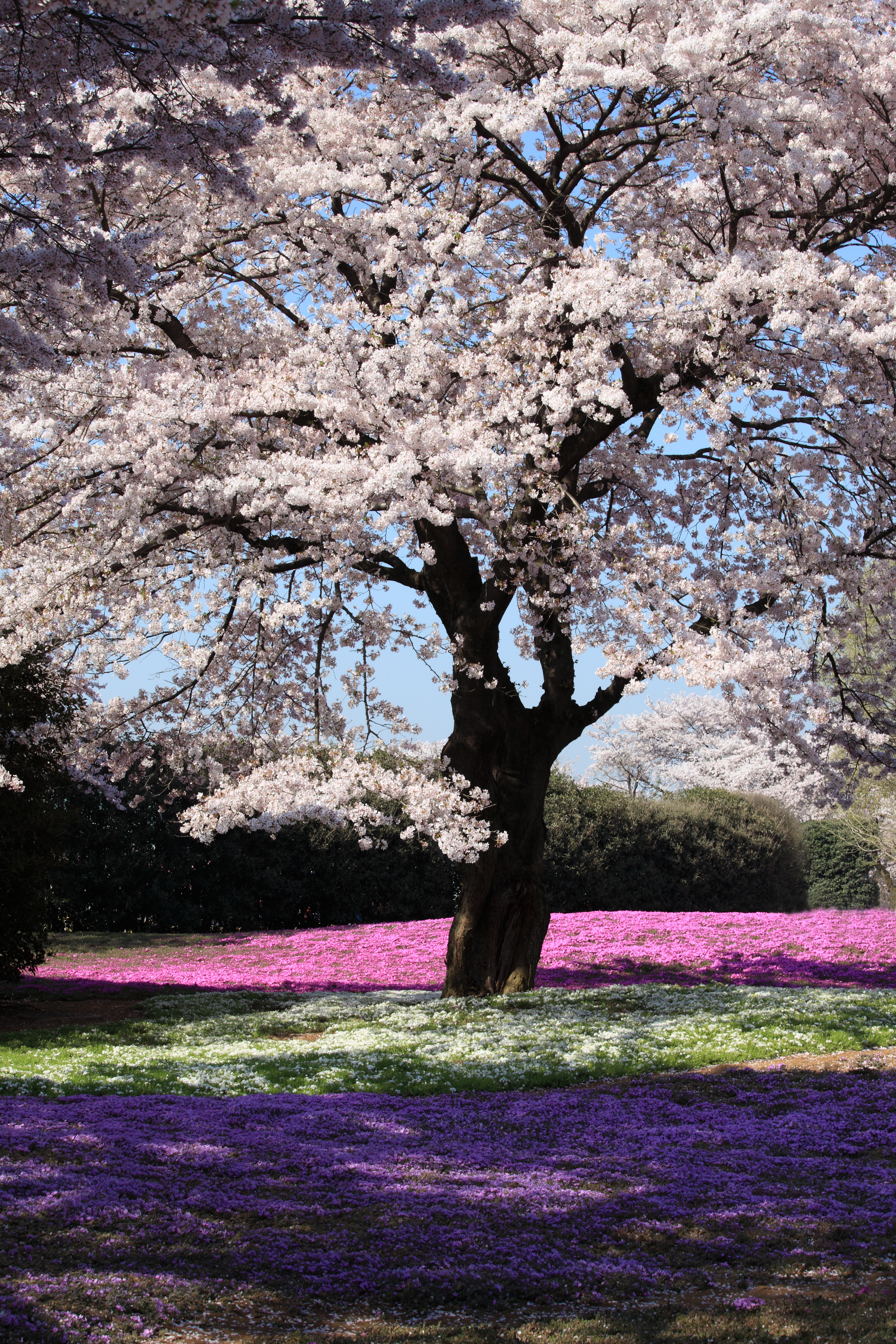 Yachounomori Garden, Tatebayashi-shi(city) Gunma-ken(Prefecture), Japan 群馬県館林市 野鳥の森ガーデン